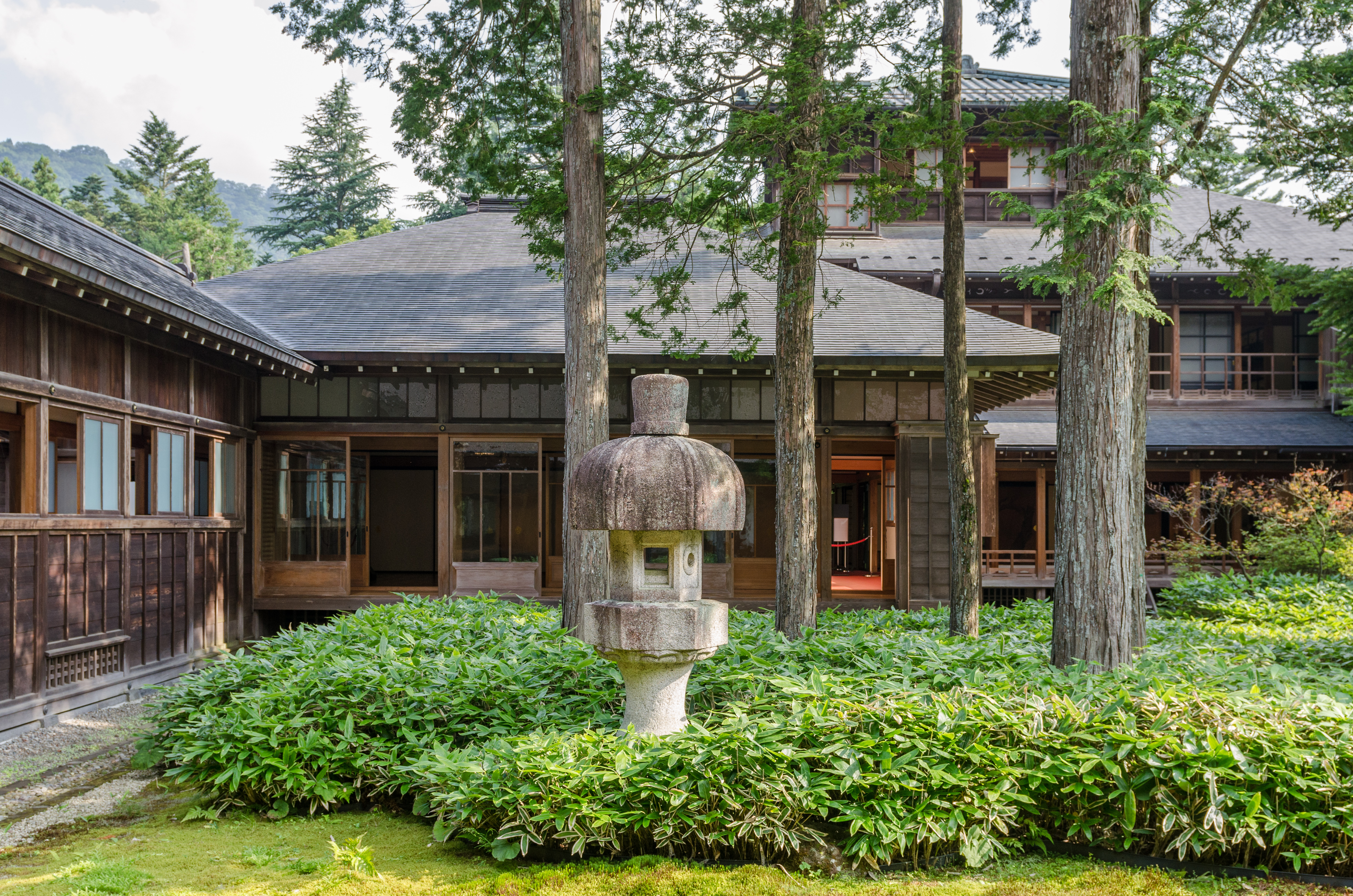 A view of one of the inner courtyards of the Imperial Villa in Nikko.